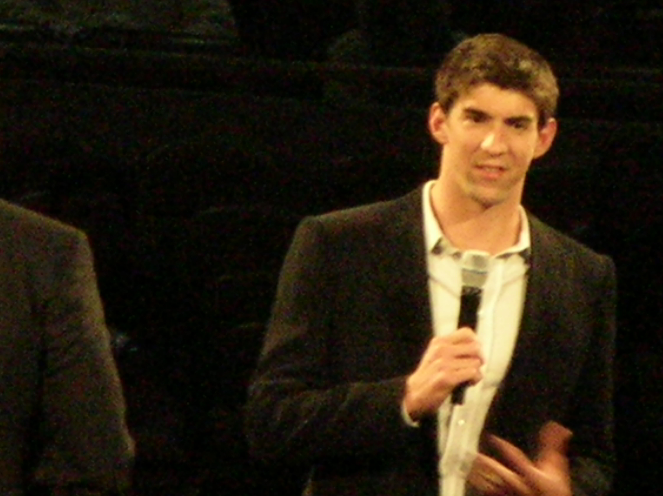 Michael Phelps speaks at the Get Motivated Seminar at the Cow Palace in Daly City, California.